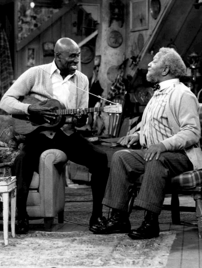 Photo of guest star Scatman Crothers and Redd Foxx as Fred Sanford from the television program Sanford and Son.